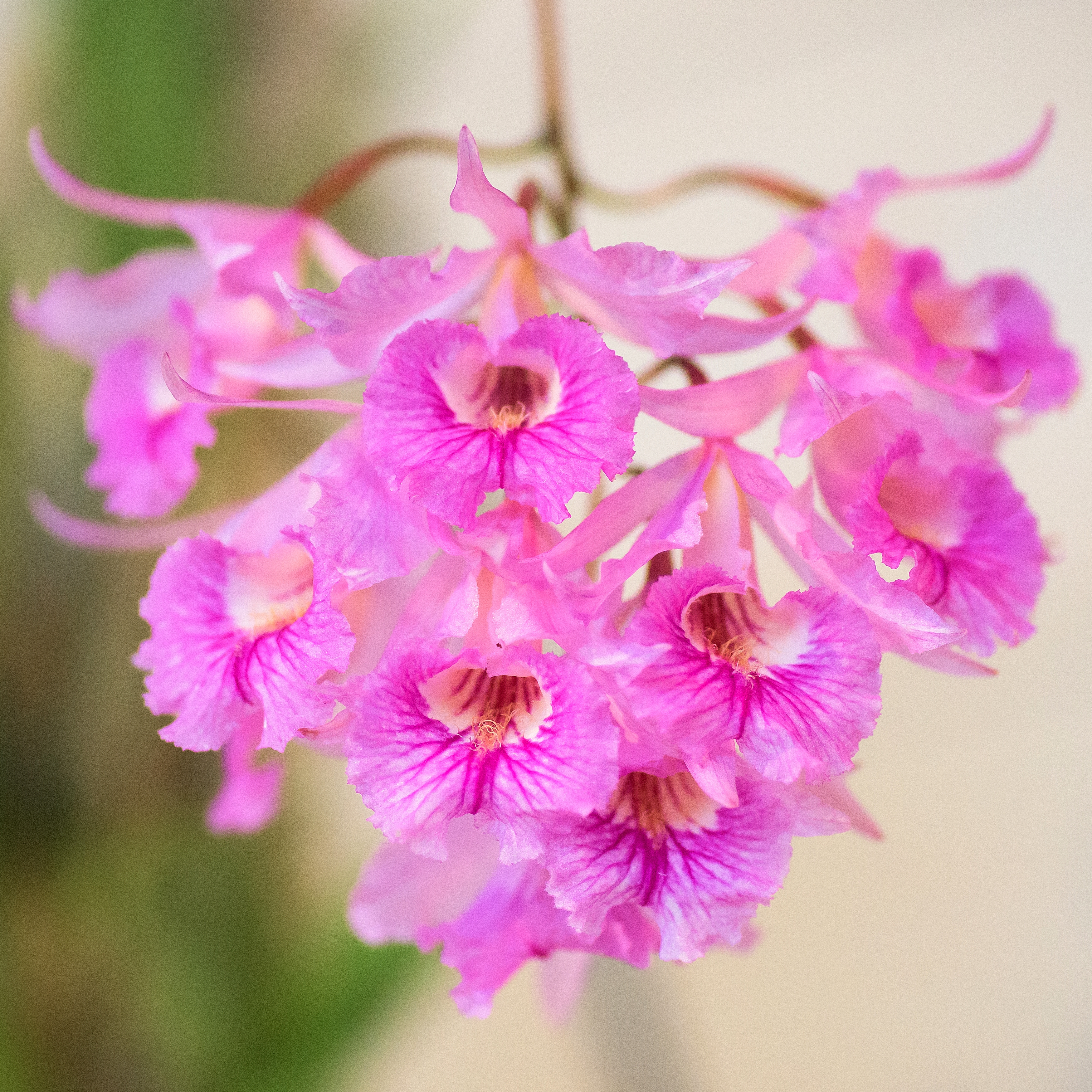 Broughtonia negrilensis